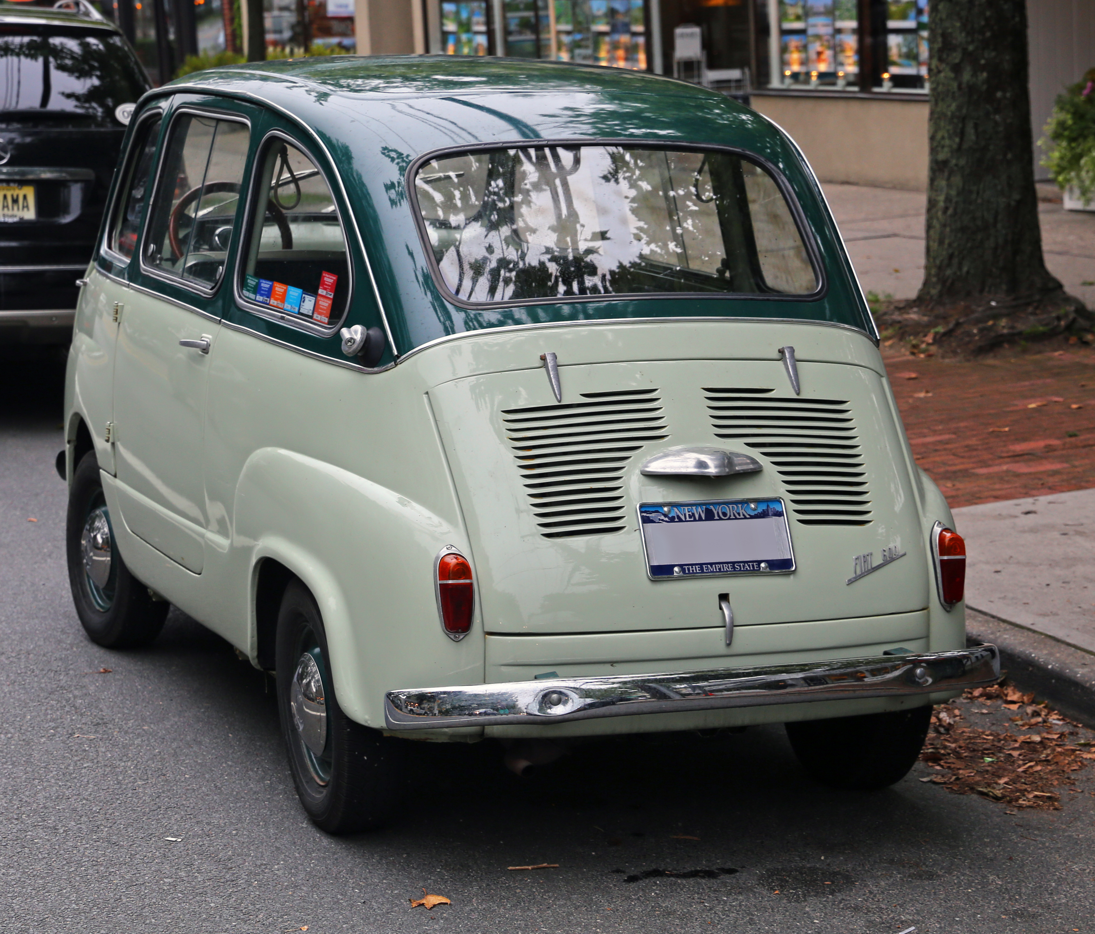 Rear view of a 1959 Fiat 600 Multipla in Bridgehampton, NY. This car has bigger headlight bezels, are they due to federal regulations? I've seen them on a few European cars too, but with old cars who knows how many times they've crossed the Atlantic.